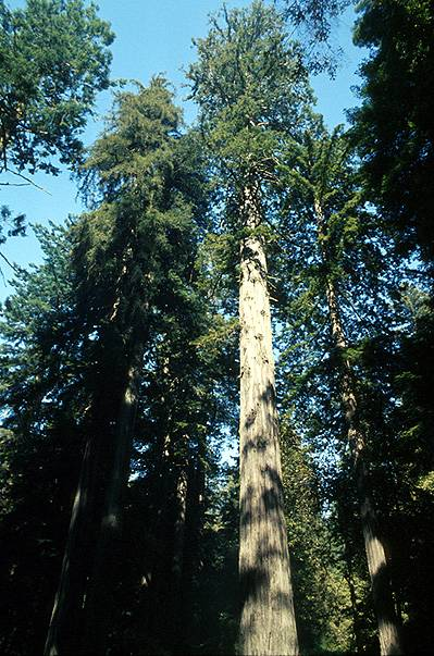 Sequoia sempervirens in Redwood National Park